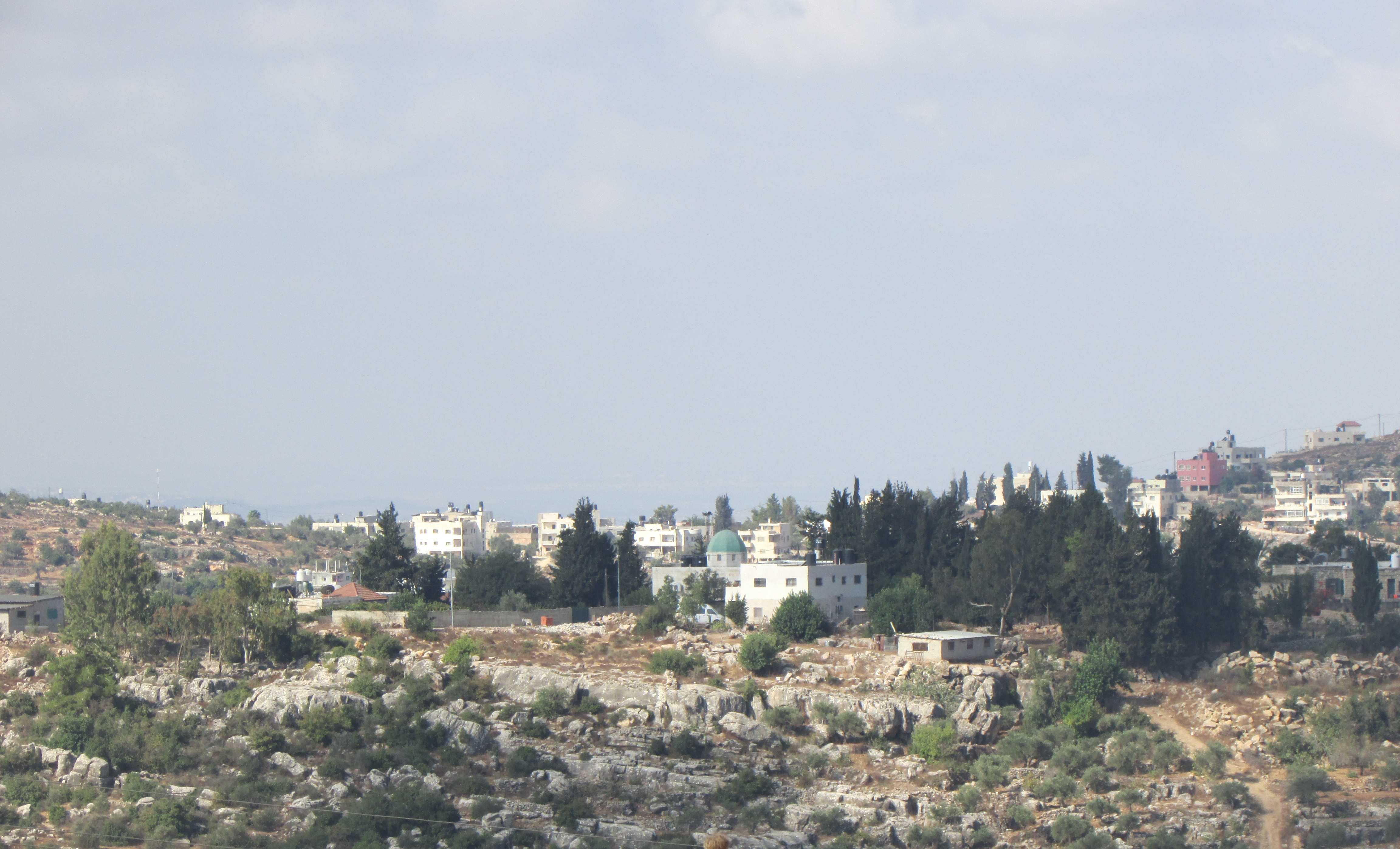 Mosque in Burham. Taken from the east on route 465.